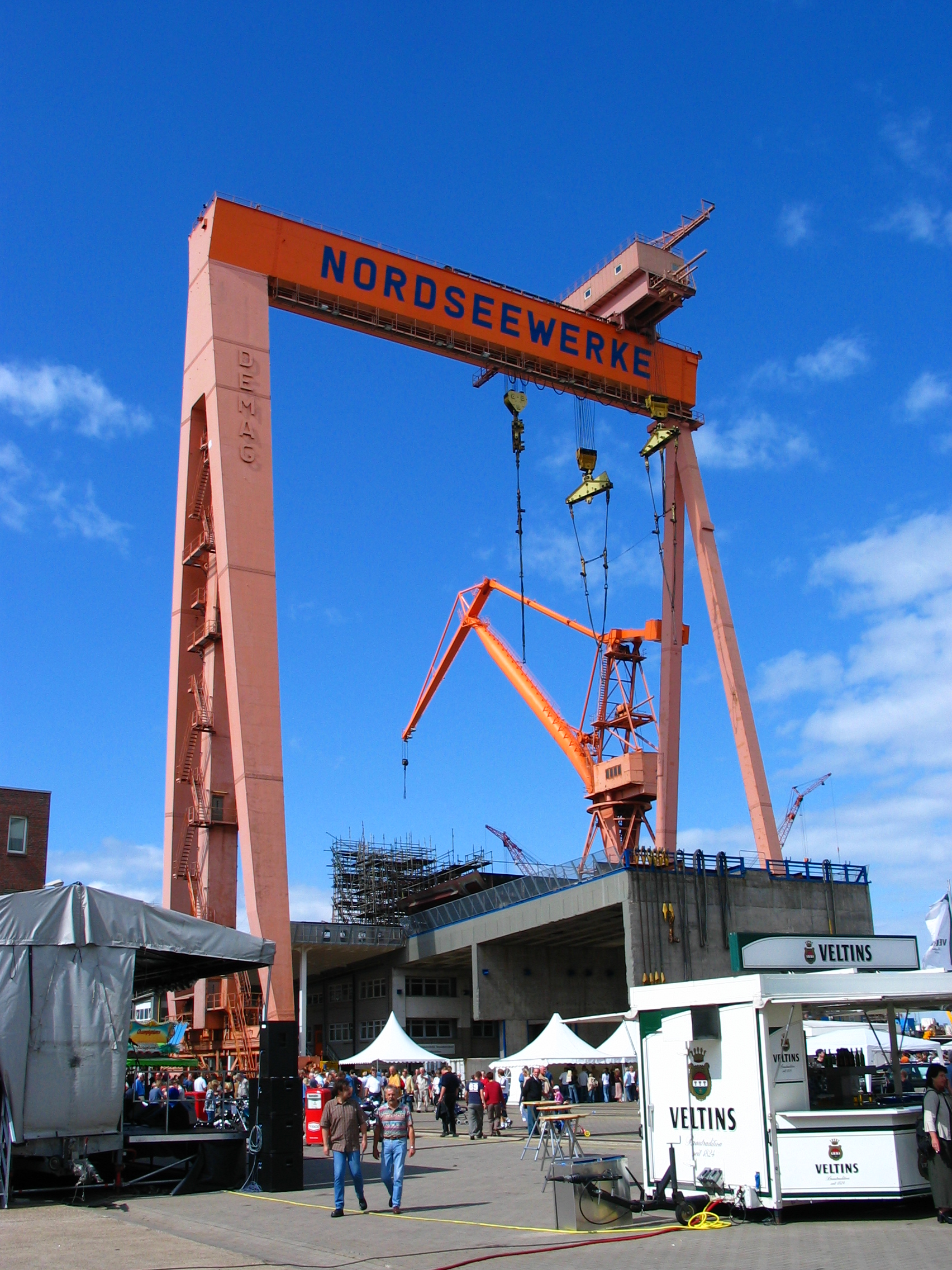 Nordseewerke Shipyards in Emden, Germany.